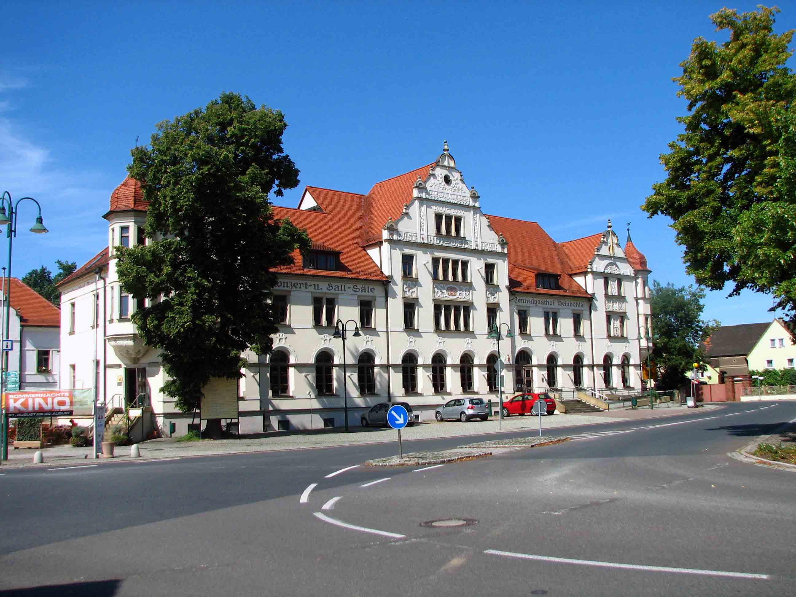 Zentralgasthof Weinböhla